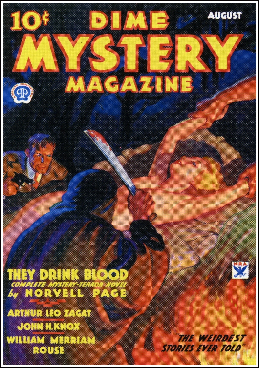 Cover of the pulp magazine Dime Mystery Magazine (August 1934, col. 6, no. 1) featuring They Drink Blood by Norvell Page.